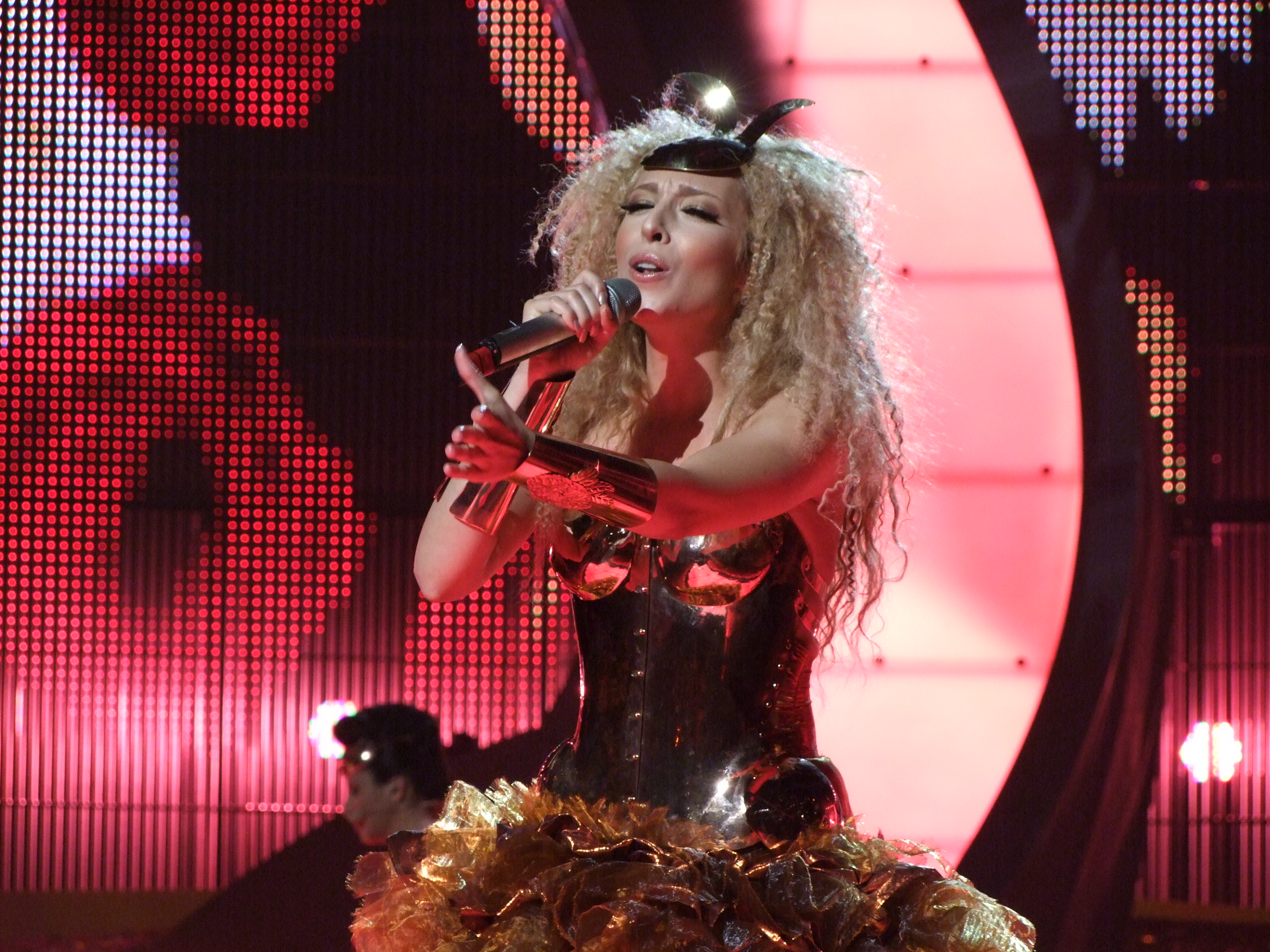 Gisela from Andorra performing, Serbia, May 2008